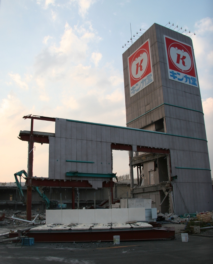 Sano Kinkado undergoing demolition (October 2012)